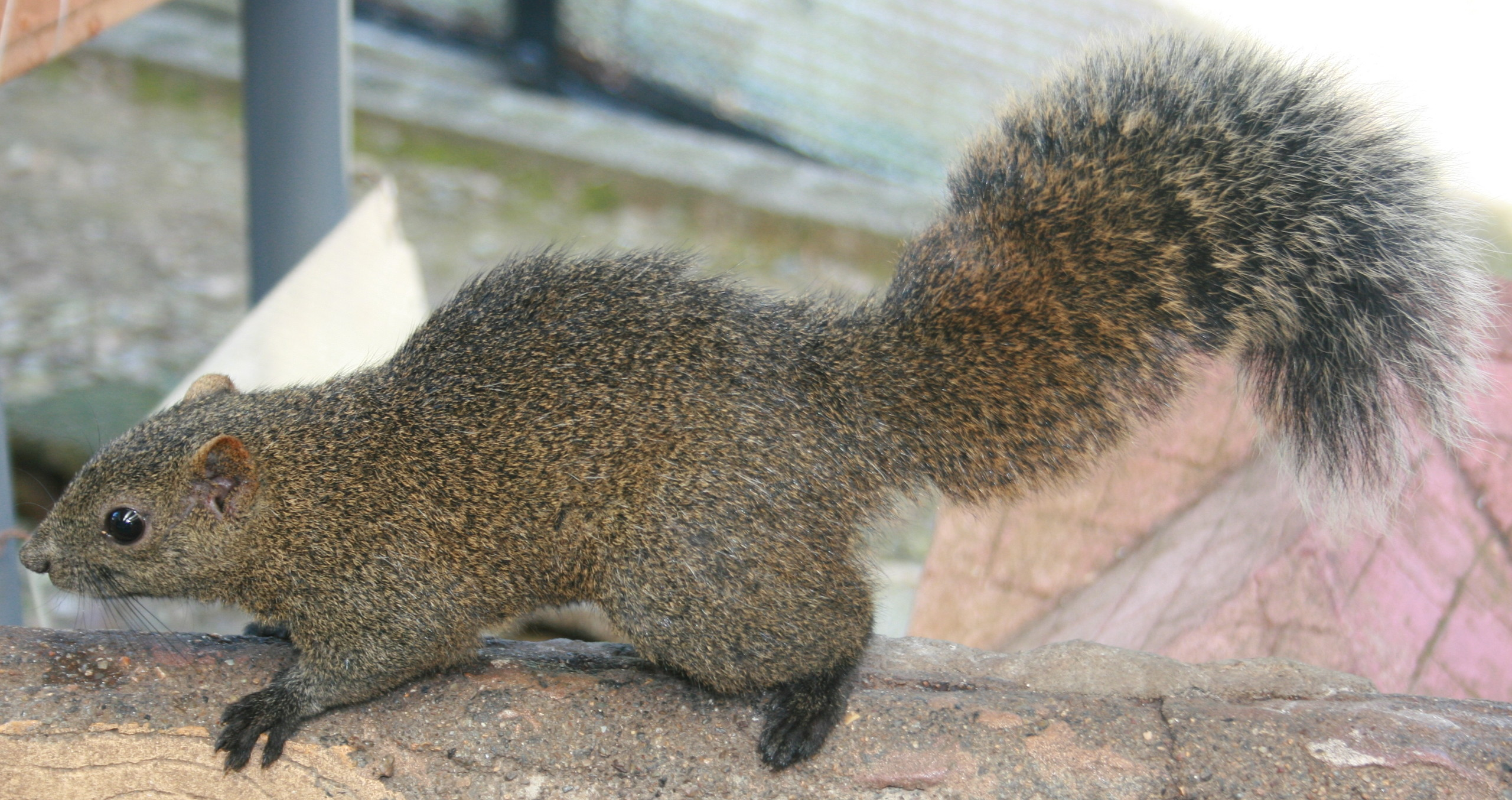 Callosciurus erythraeus thaiwanensis in zoo of Mount Kinka (Squirrel Village)